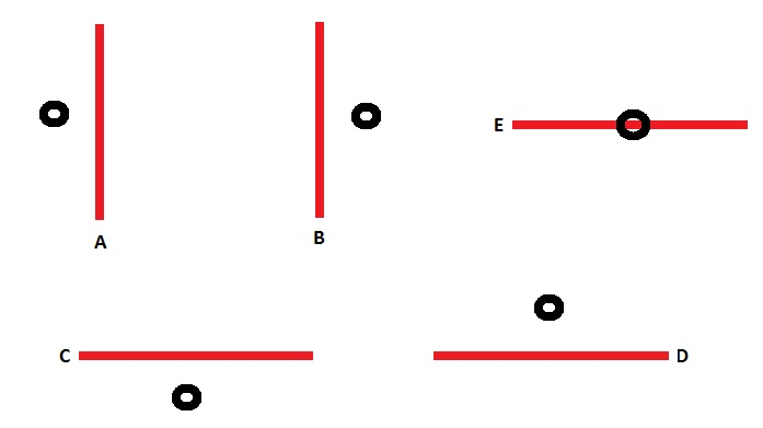 A) Exotropia, B) Esotropia, C) Hyper-deviation, D) Hypo-deviation, E) No deviation